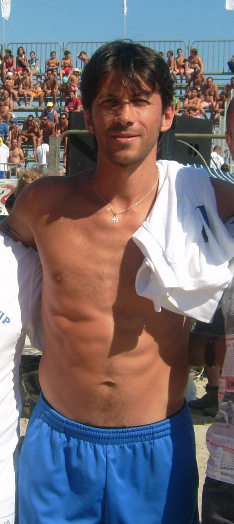 Massimo Paganin before Beach Soccer's match at Sciacca (Ag) Sicily